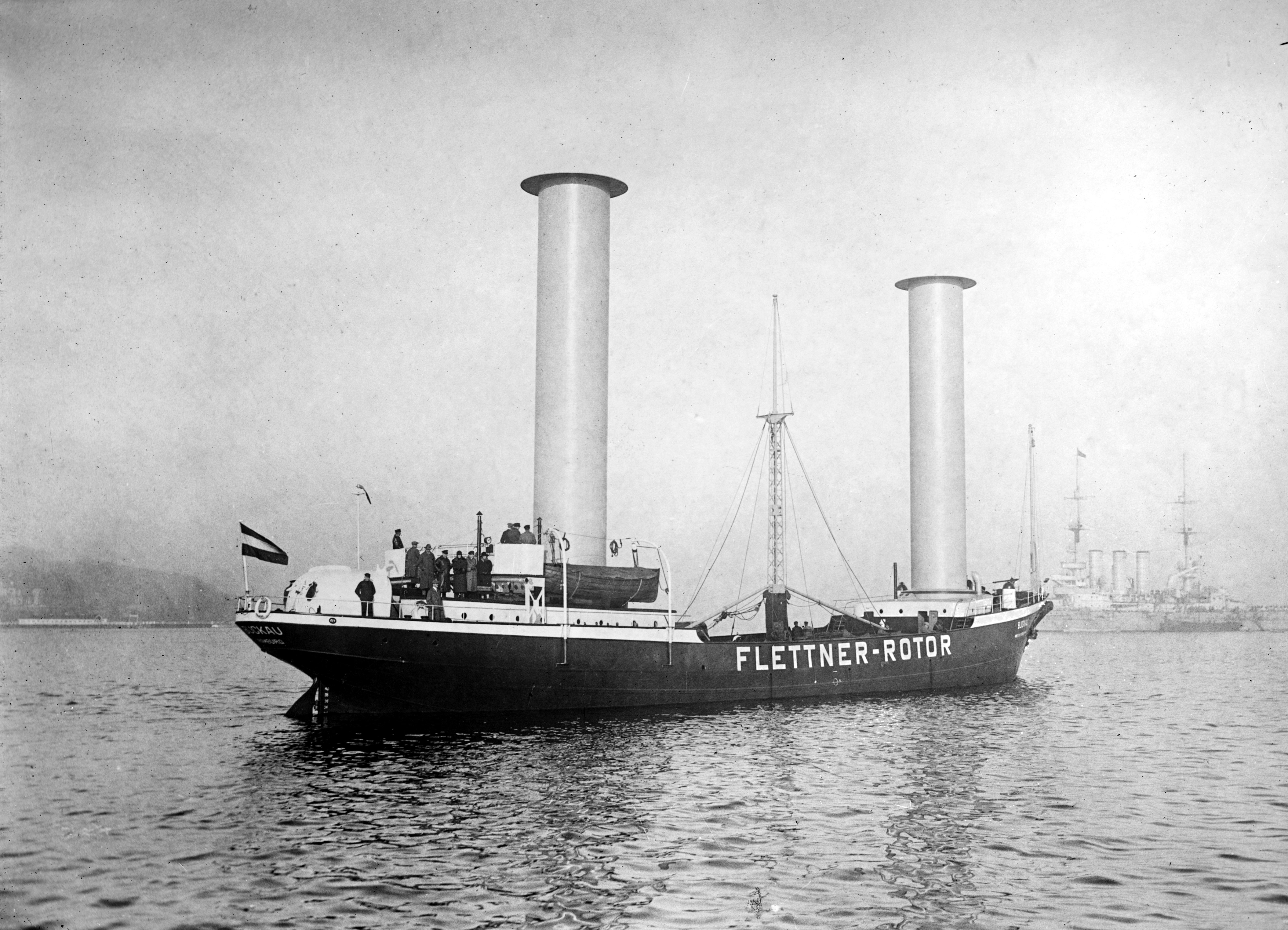 The Buckau, the Flettner Rotor Ship, photographed in 1924